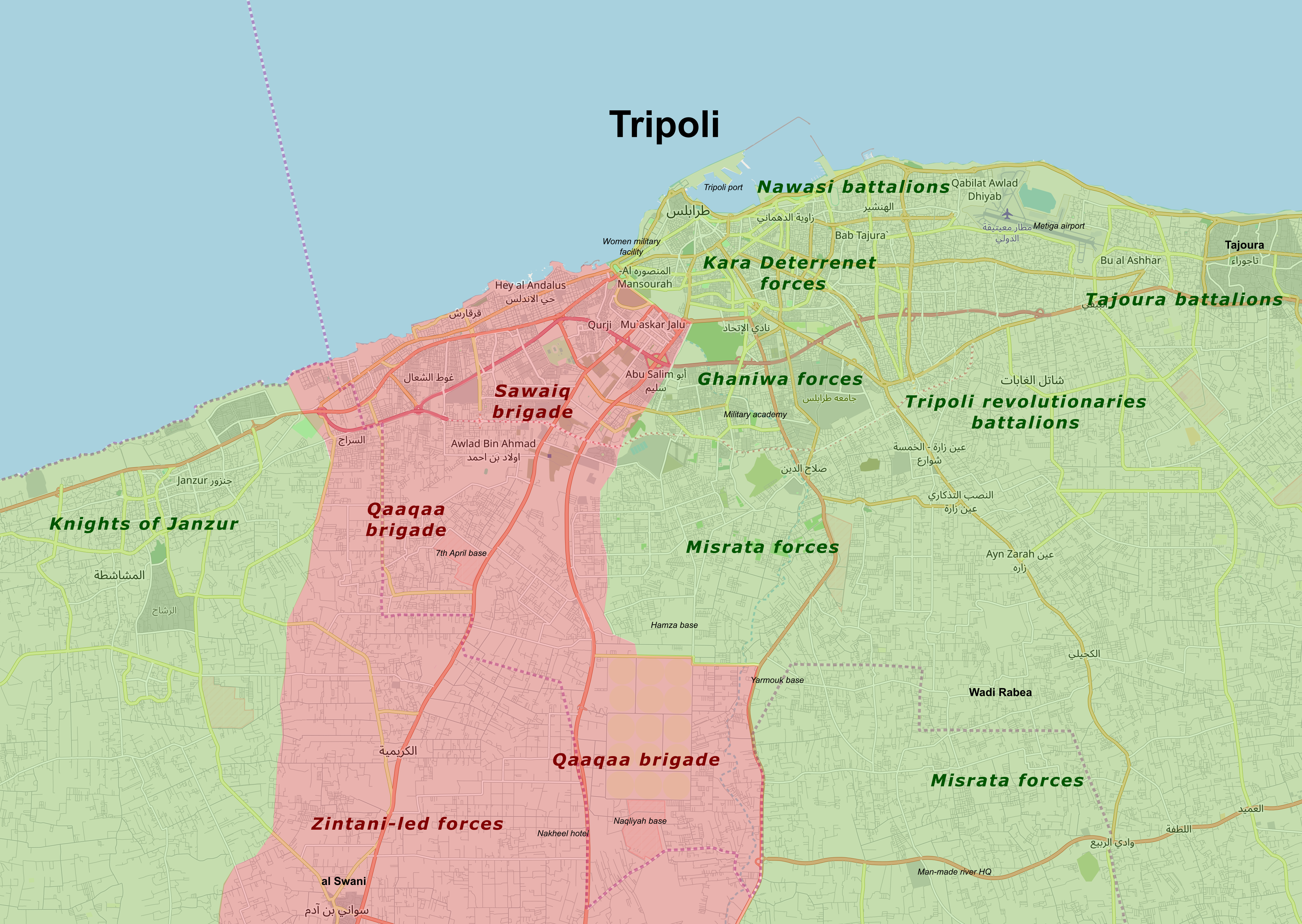 Detailed map of Tripoli showing the approximate frontlines during mid-June 2014. Heavily influenced by: Mark Kersten ( Saif Islam ( This map may be incomplete, and may contain errors. Don't rely solely on it for navigation.